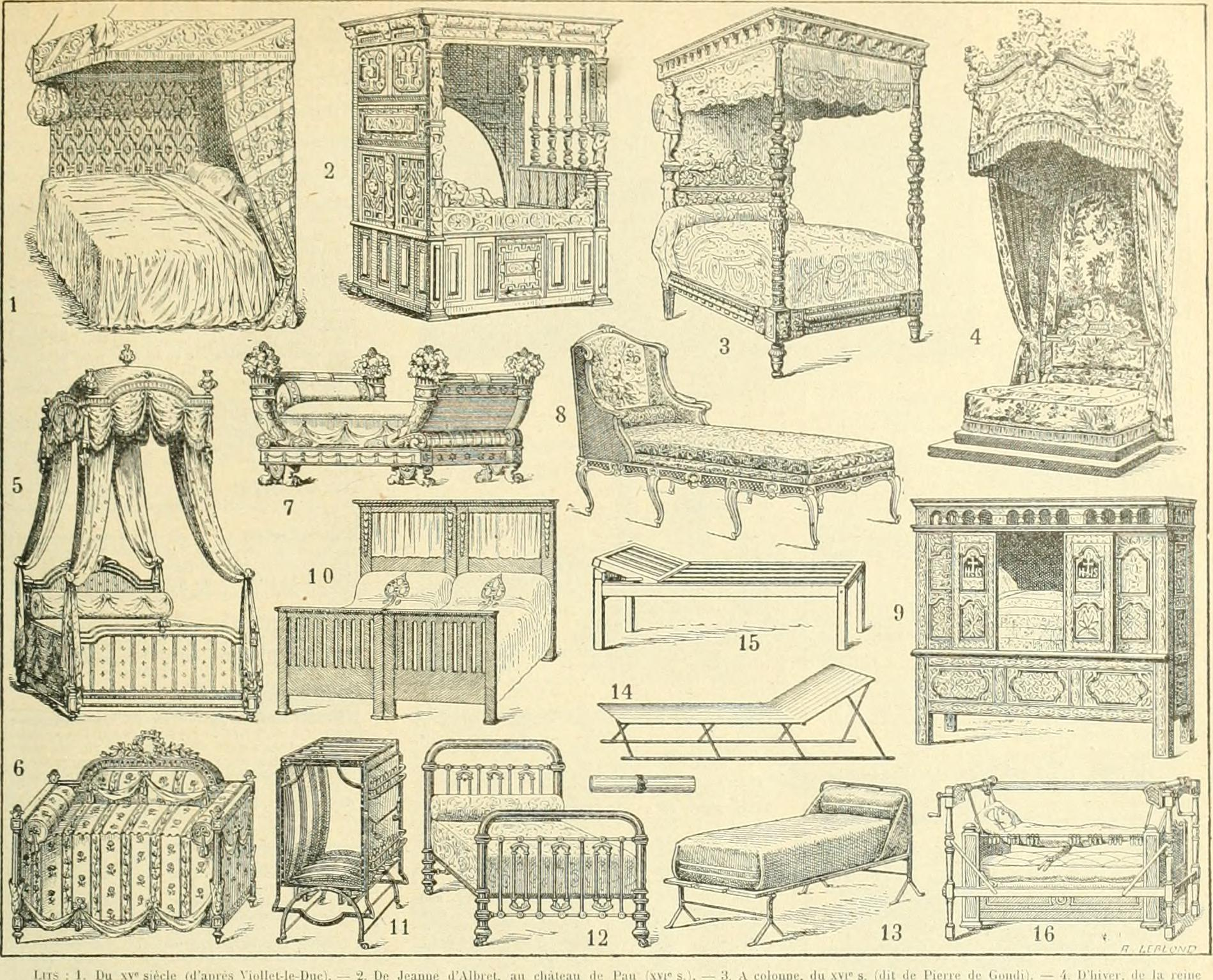 Title: Larousse universel en 2 volumes; nouveau dictionnaire encyclopédique publié sous la direction de Claude Augé Year: 1922 (1920s) Authors: Larousse, Pierre, 1817-1875 Subjects: Encyclopedias and dictionaries, French French Publisher: Paris Larousse Text Appearing Before Image: Le roi Louis-Philippe et ses flls (Horace Vernet), v p 96, Lf Vœu de Louis XIII (Ingres), v. p. S4. LIS 71 — l.l I Text Appearing After Image: LITS : 1. Du XVe siècle (d'après Viollet-le-Duc). — 2. De Jeanne d'Albret, au château de Pau (XVe s.). — 3. A colonne, du XVIe s. (dit de Pierre de Gondi). — D'hiver, de la reine Marie-Antoinette (palais de Fontainebleau). — 5. A la Dauphine (XVIIIe s.) — 6. A l'anglaise (XVIIIe s.) — 7. Ayant servi à Napoléon Ier (Garde-Meuble). — 8. De repos (moderne, dessiné par Radel). — 9. Clos,, moderne (Bretagne). — 10. Lits jumeaux (style moderne anglais). — 11. Lit cage fermé. — 12. Moderne, en cuivre. — 13. Militaire. — 14. Pliant, d'explorateur. — 15. De massage (médecine). 16. Mécanique (chirurgie).